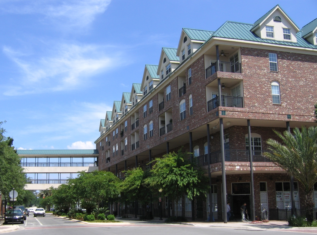 Gainesville Downtown Building